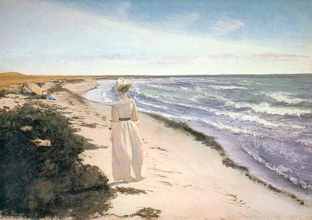 Lady on the Beach at Karrebæksminde; oil on canvas, 46,0 x 65,0 cm